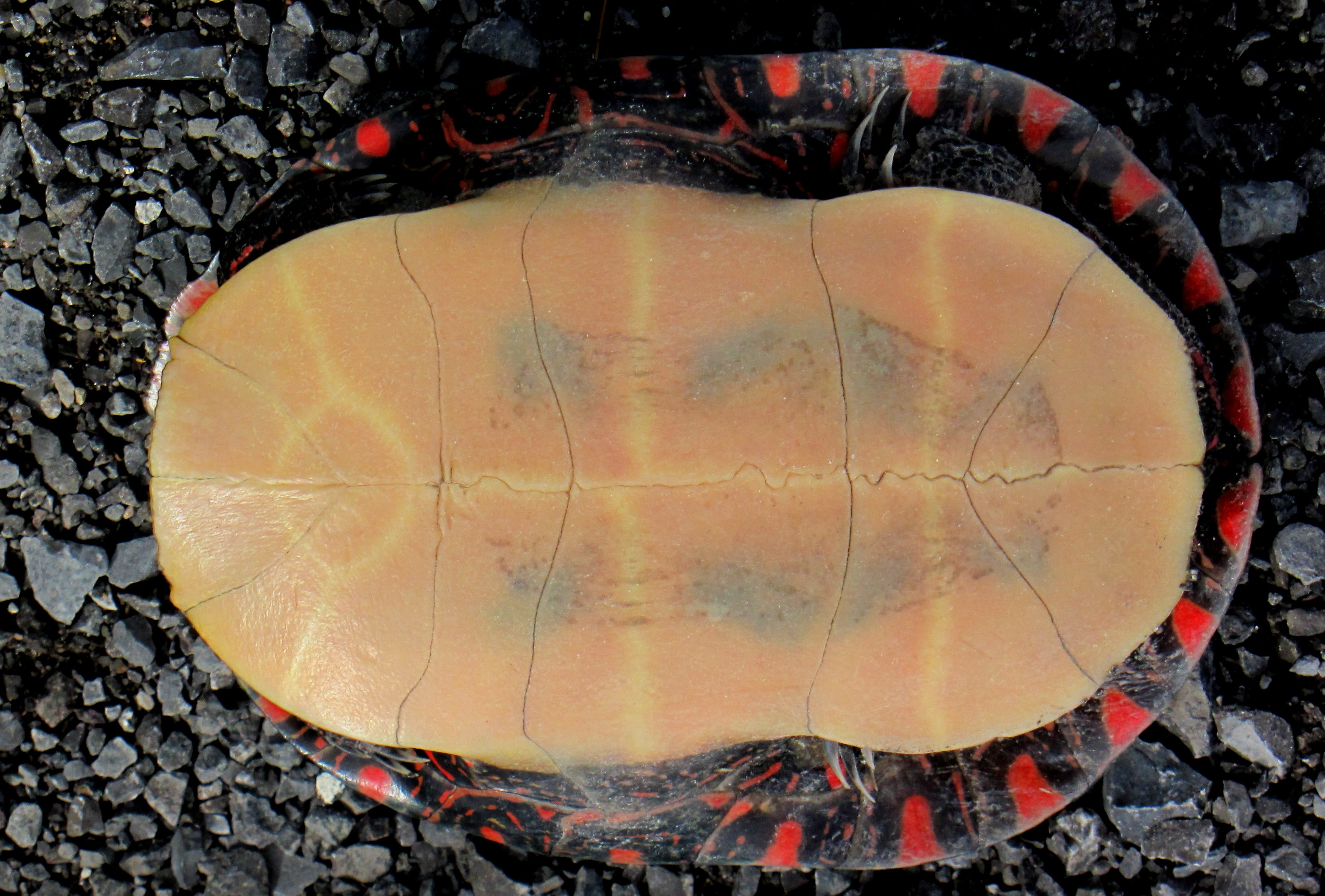 Plastron of adult Midland Painted Turtle (Chrysemys picta marginata), Ottawa, Ontario, Canada (for use in a gallery with common aspect ratios)